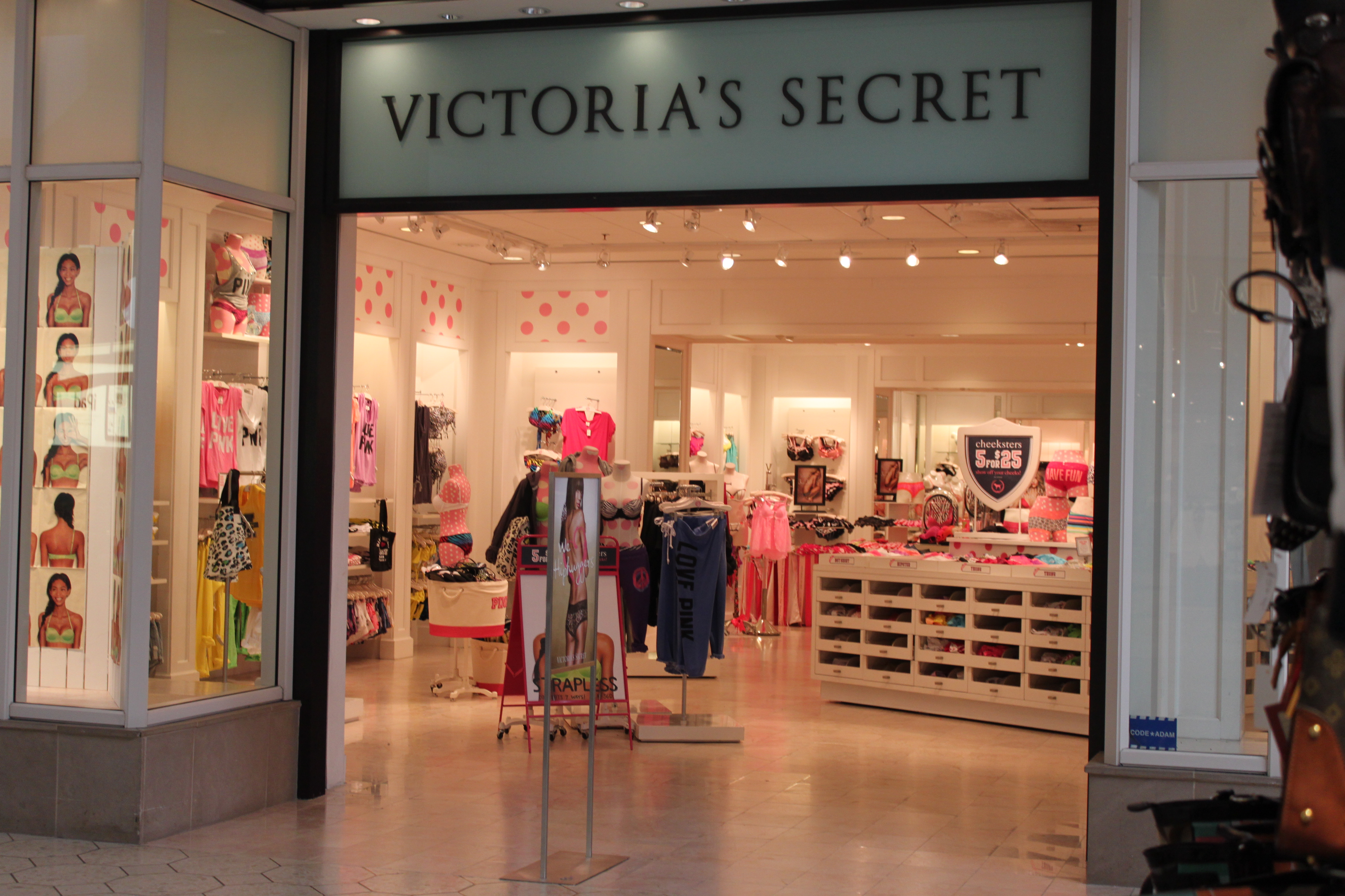 Victoria's Secret store, Briarwood Mall, Ann Arbor, MI.